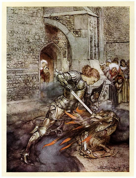 Lancelot slays the dragon. Illustration from Tales of King Arthur and the Knights of the Round Table by Nelly Montijn-The Fouw Illustrated by Arthur Rackham